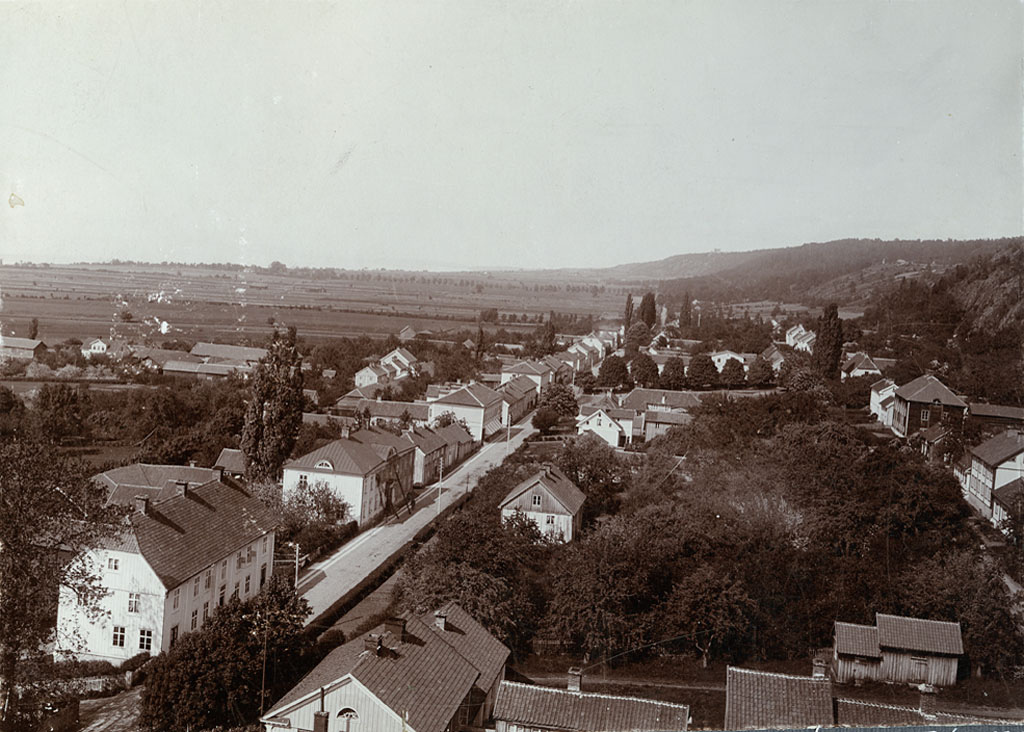 Gränna viewed from the nearby mountain. Gränna sett från berget intill. Parish (socken): Gränna Province (landskap): Småland Municipality (kommun): Jönköping County (län): Jönköping Photograph by: Unknown Date: 1900 Format: Print Persistent URL: Read more about the photo database (in english)